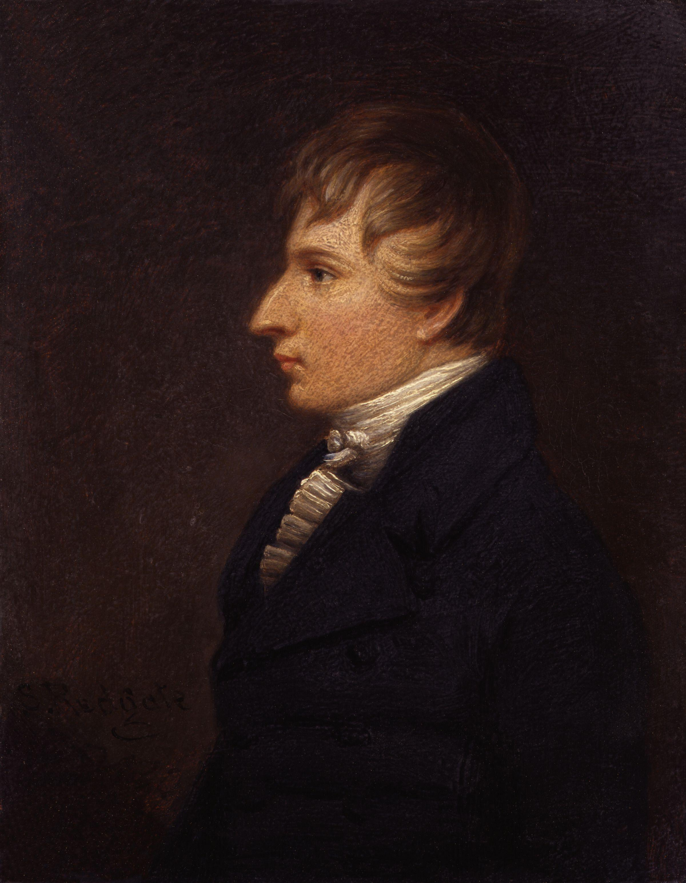 Henry Kirke White, by Thomas Barber (died 1843). All images in this batch have been confirmed as author died before 1939 according to the official death date listed by the NPG.